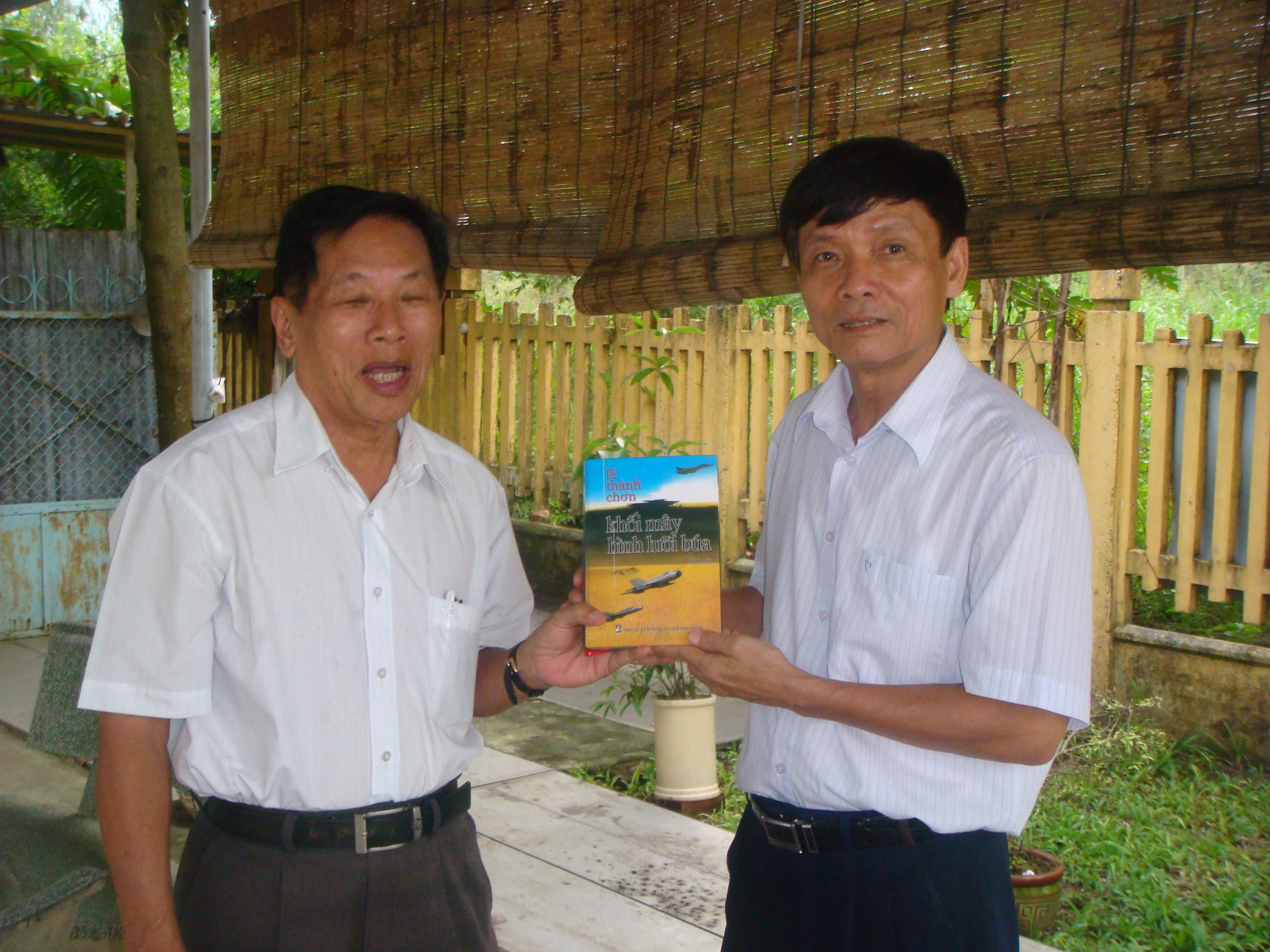 Mr. Lê Thành Chơn (left) and Ace pilot Nguyễn Văn Nghĩa (Biên Hòa Air Base, November 2010)